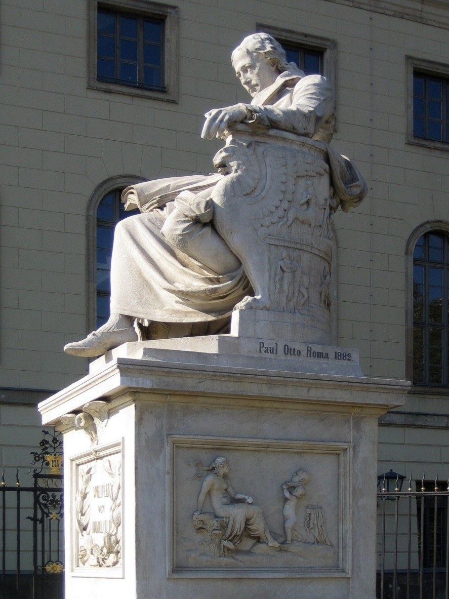 Wilhelm von Humboldt - Monument at the Humboldt-Universität Berlin.